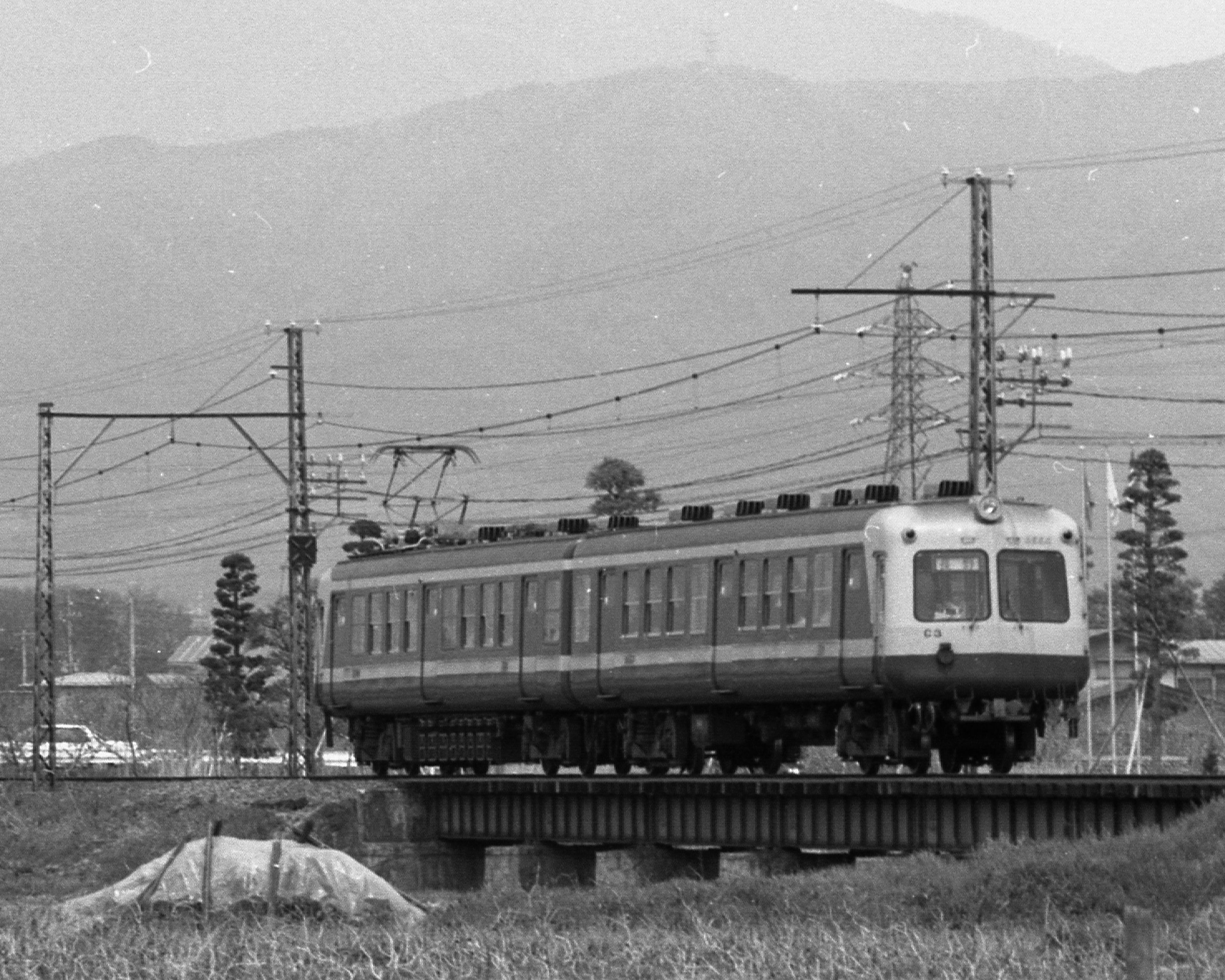 Nagaden 2503 running near Murayama station